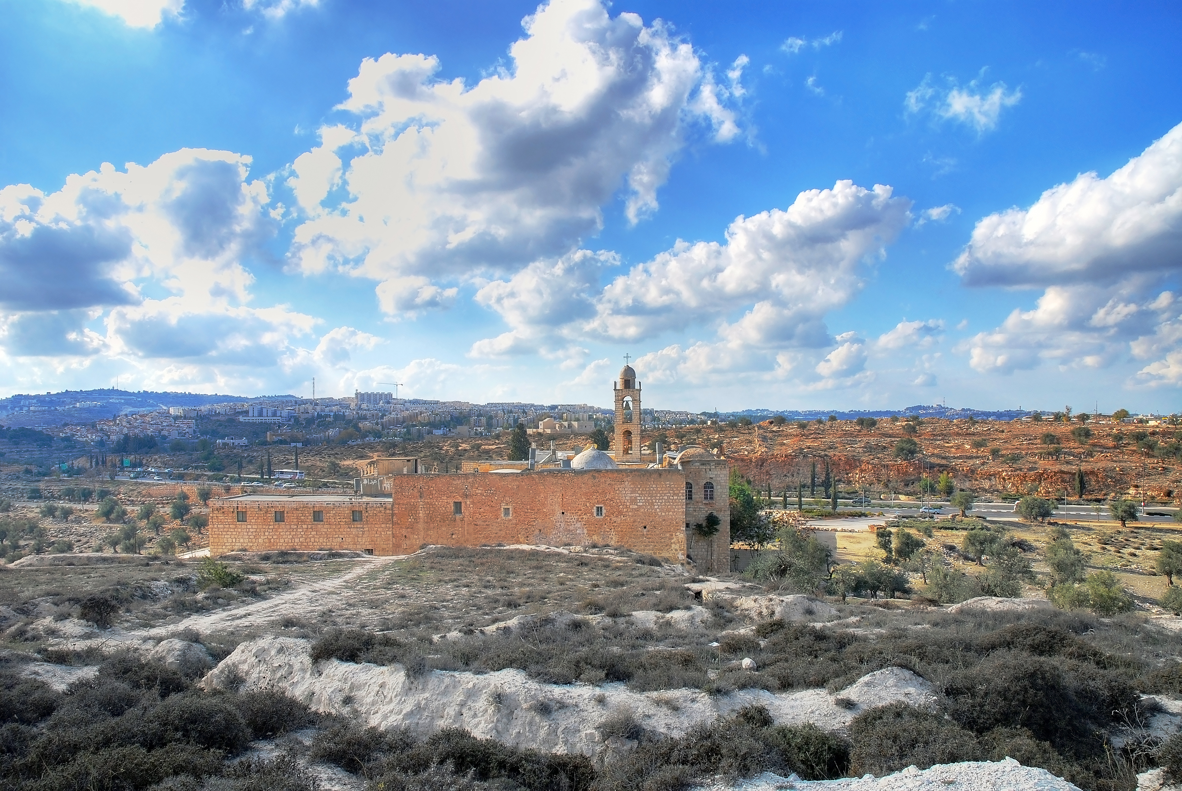 The general view from the East.